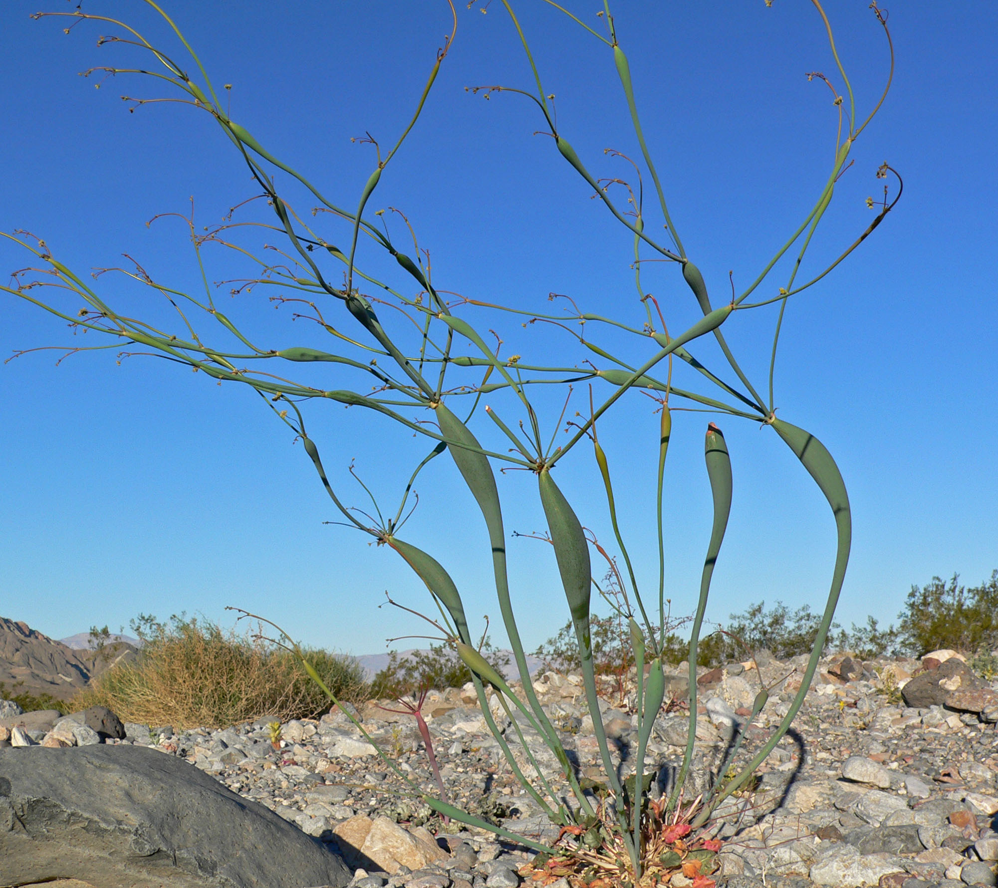 Eriogonum inflatum in upper Furnace Creek Wash, Death Valley